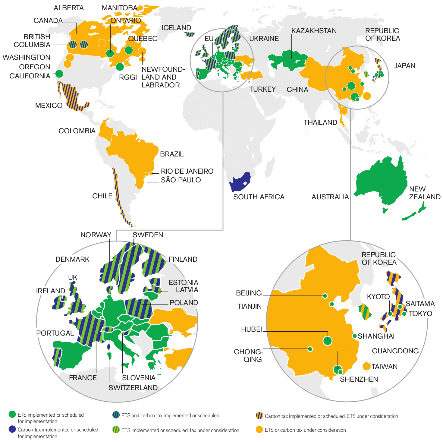 Summary map of existing, emerging and potential regional, national and subnational carbon pricing initiatives (ETS and tax)